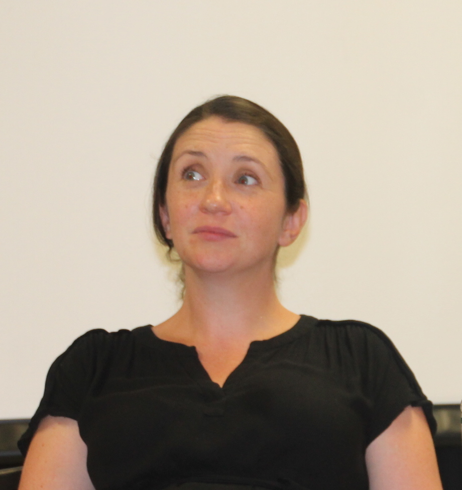 The best-selling author shared the story of how her new book "Saints for all occasions" came into being.